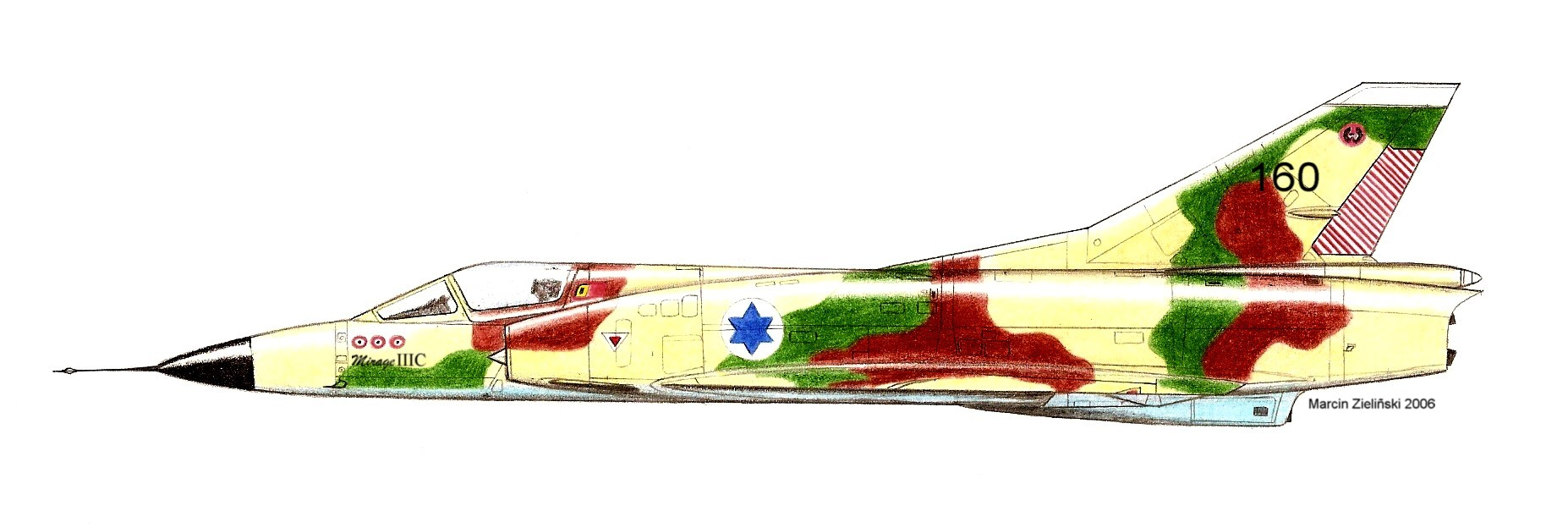 A drawing of Dassault Mirage III C. Israeli Air Force .